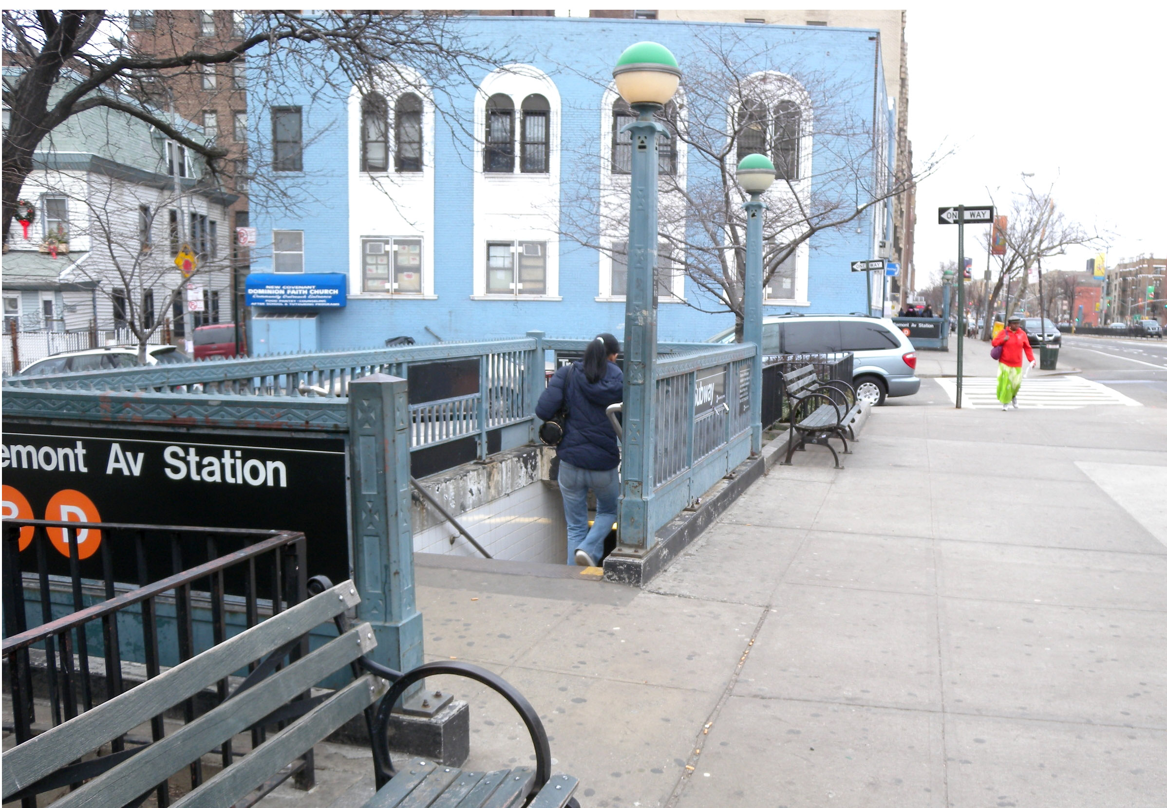 Looking north at Tremont Avenue (IND Concourse Line) stair on a cloudy afternoon.